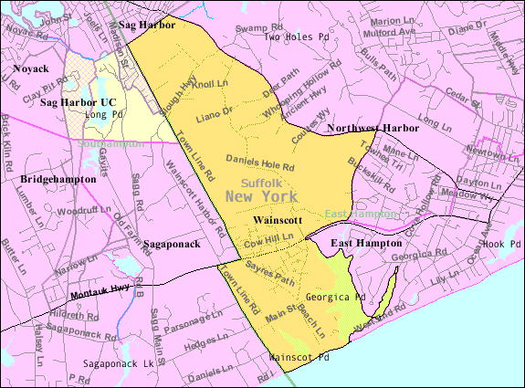 U.S. Census 2000 reference map for Wainscott